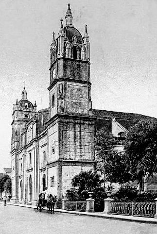 The Cathedral of San Carlos in Matanzas, Cuba taken in 1906